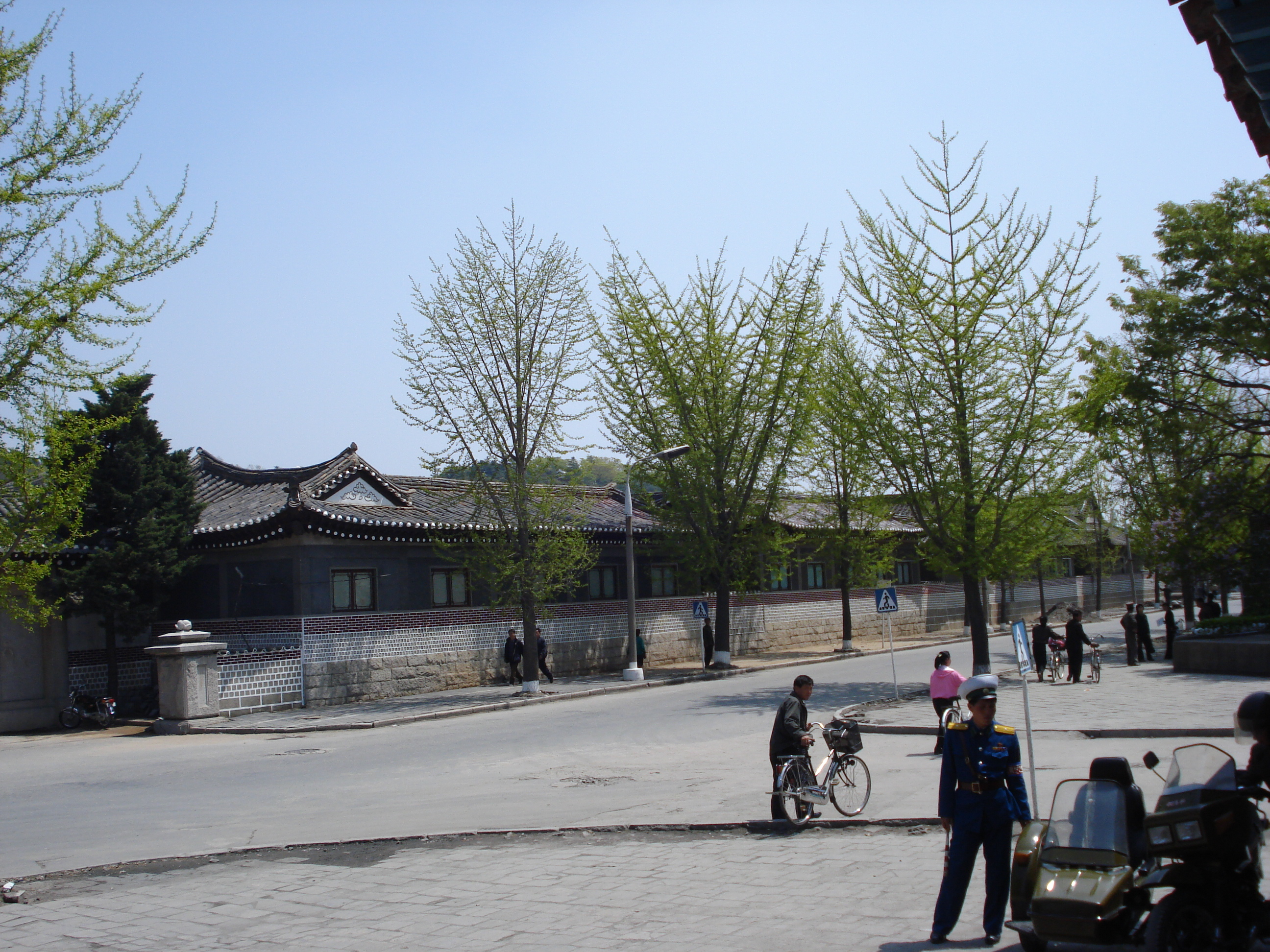 Kaesong side street DPRK